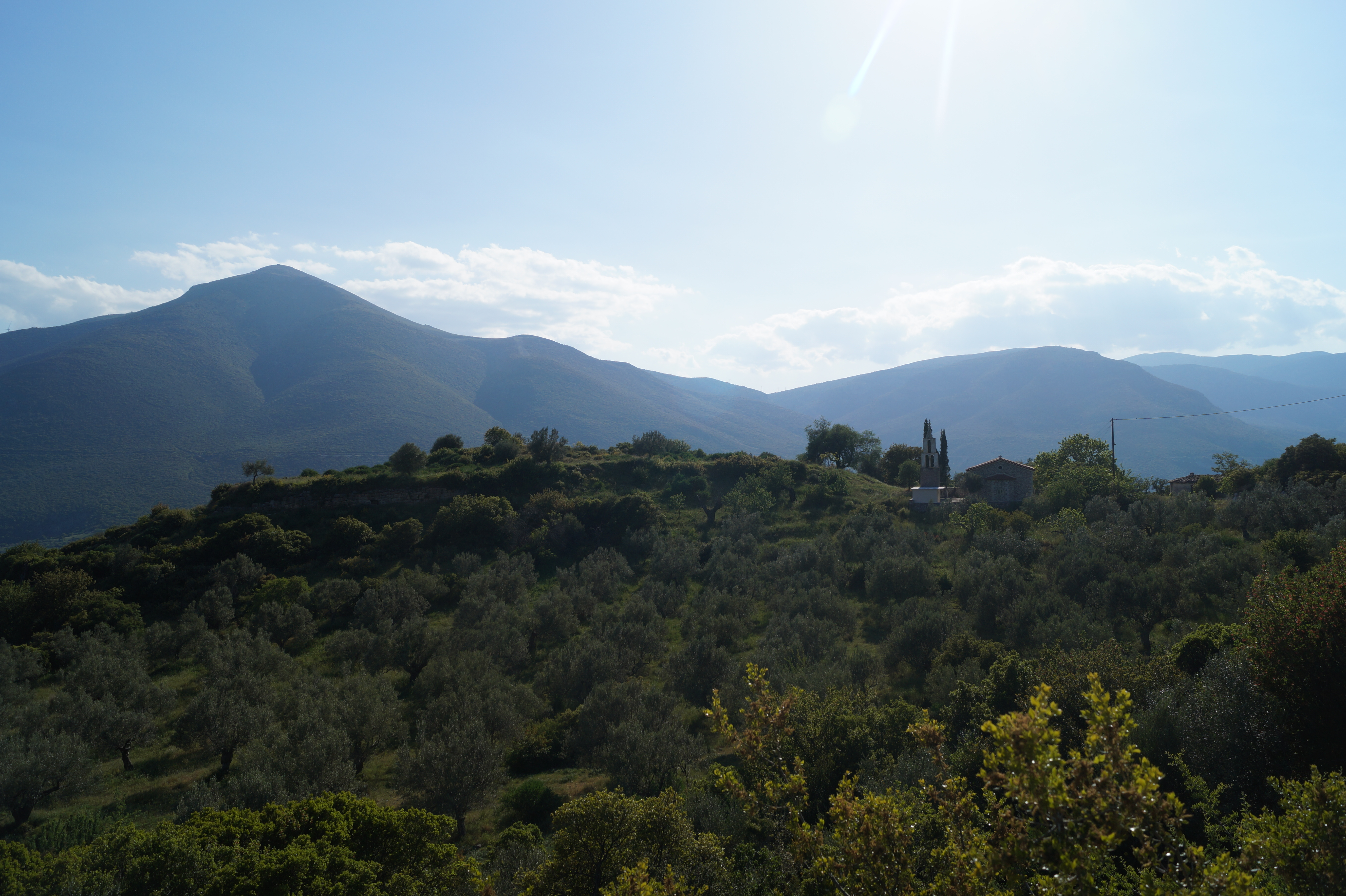 Achladokampos, Peloponnes, Greece: View from east on ancient Hysiae and the Panagia church. In the background there is the Mount Parthenion.